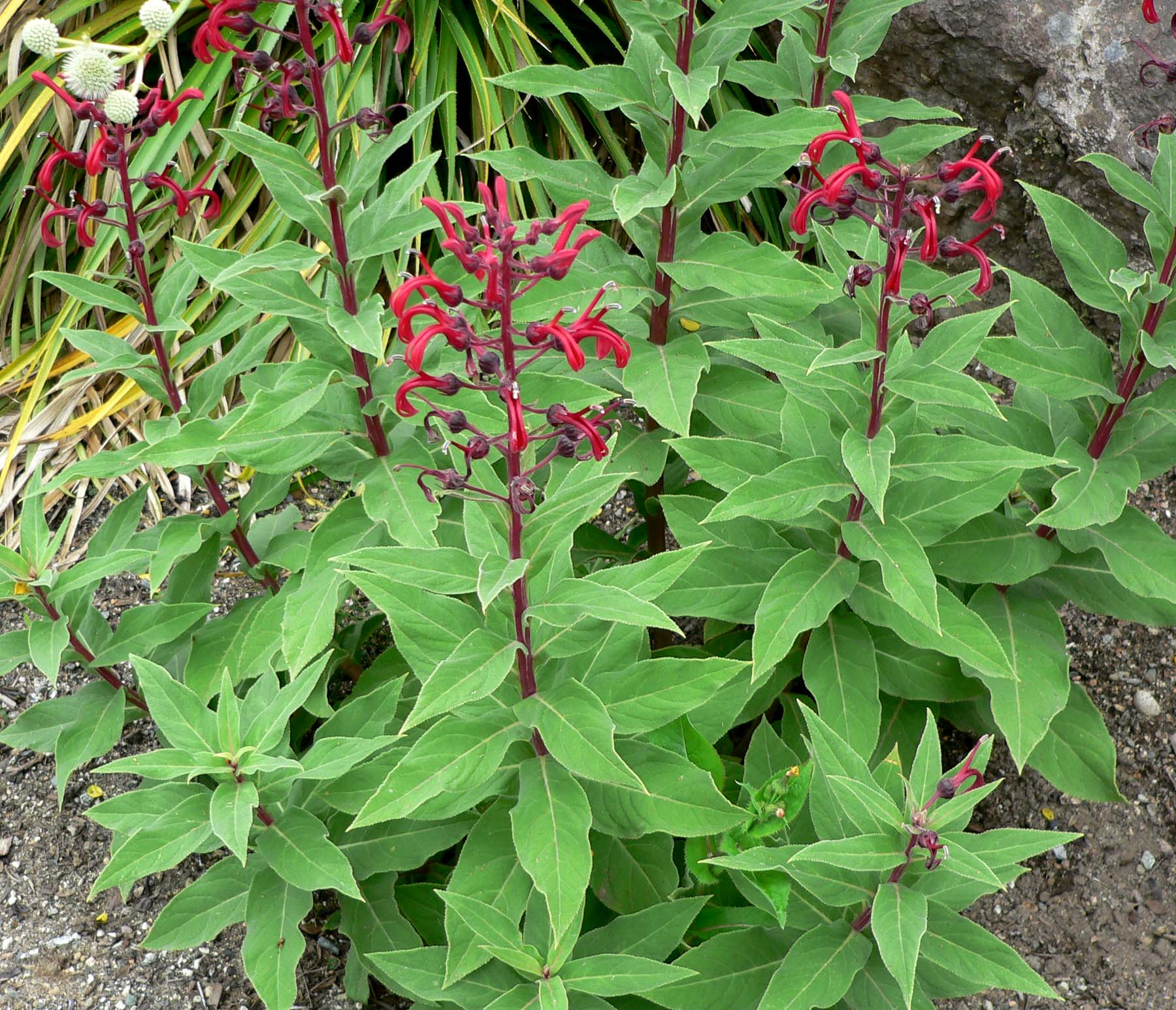 Photo of Lobelia tupa at the UBC Botanical Garden